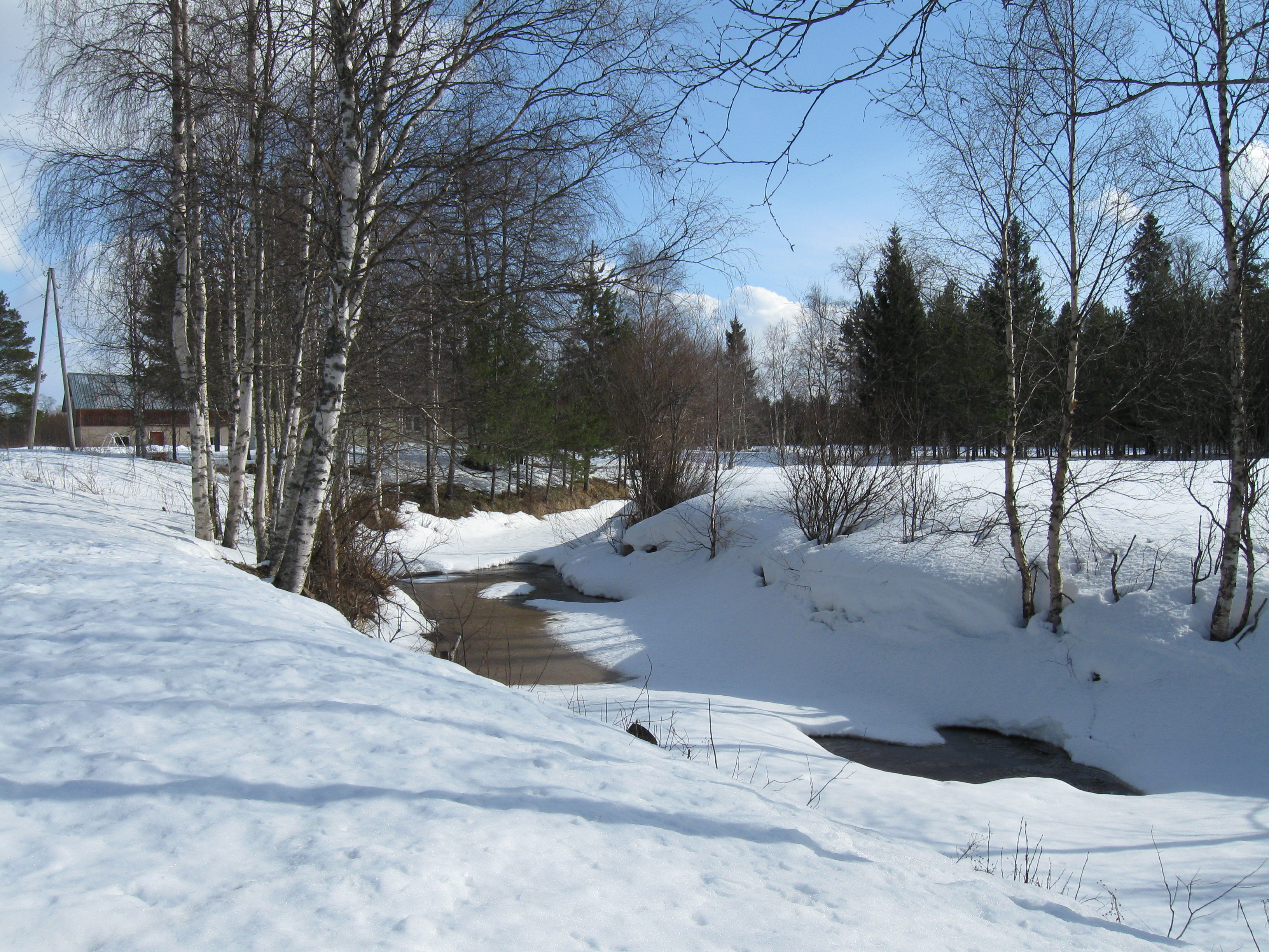 The river Tyrnävänjoki in Ylipää, Tyrnävä, Finland.